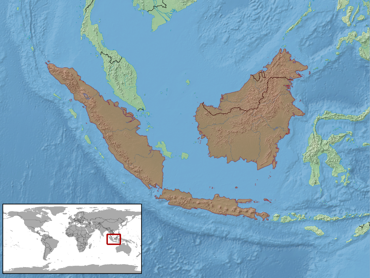 geographic distribution of Elapoidis fusca (Native: Indonesia (Jawa, Kalimantan, Sumatera))